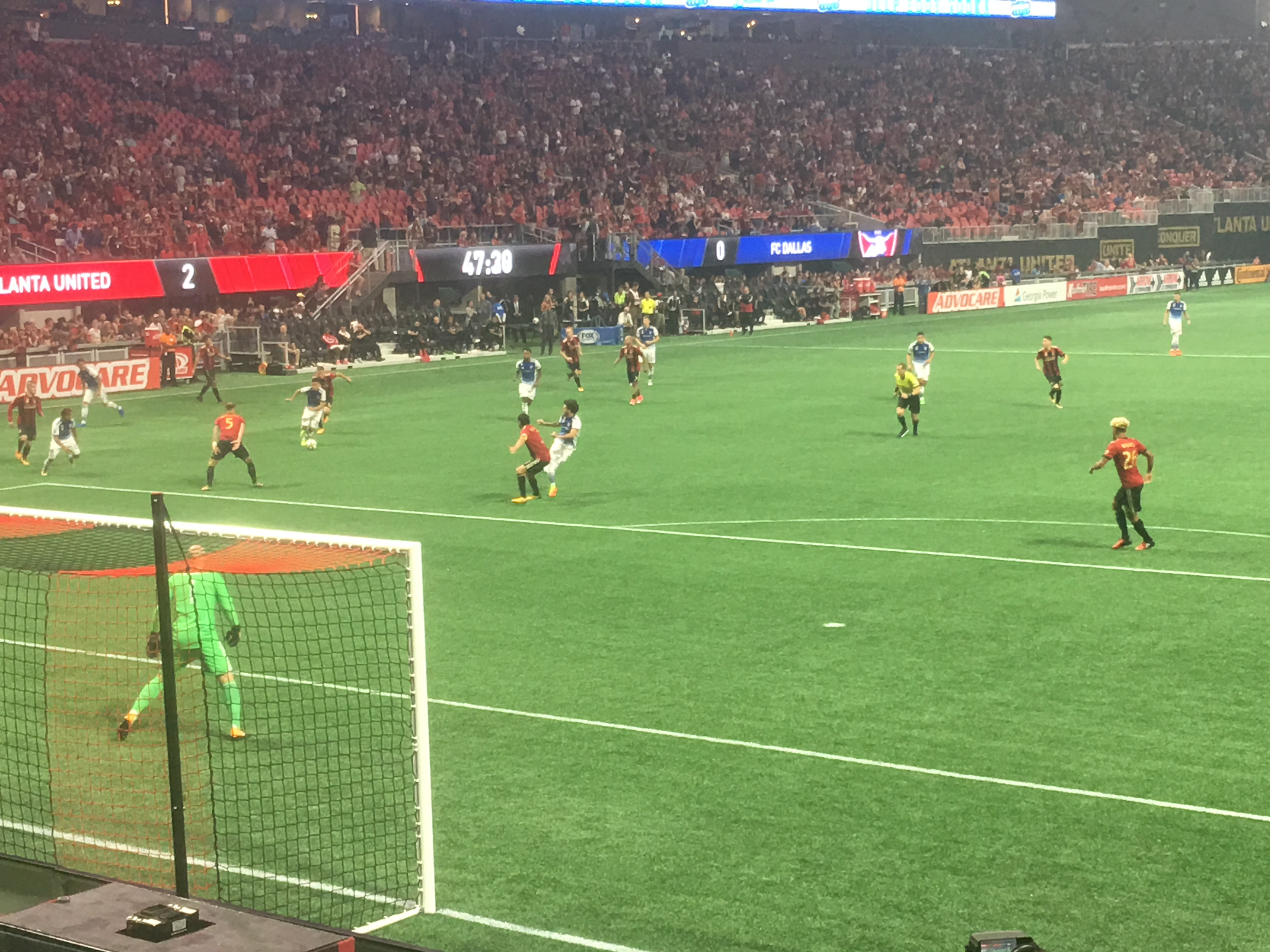 2017-09-10 - Atlanta United vs FC Dallas